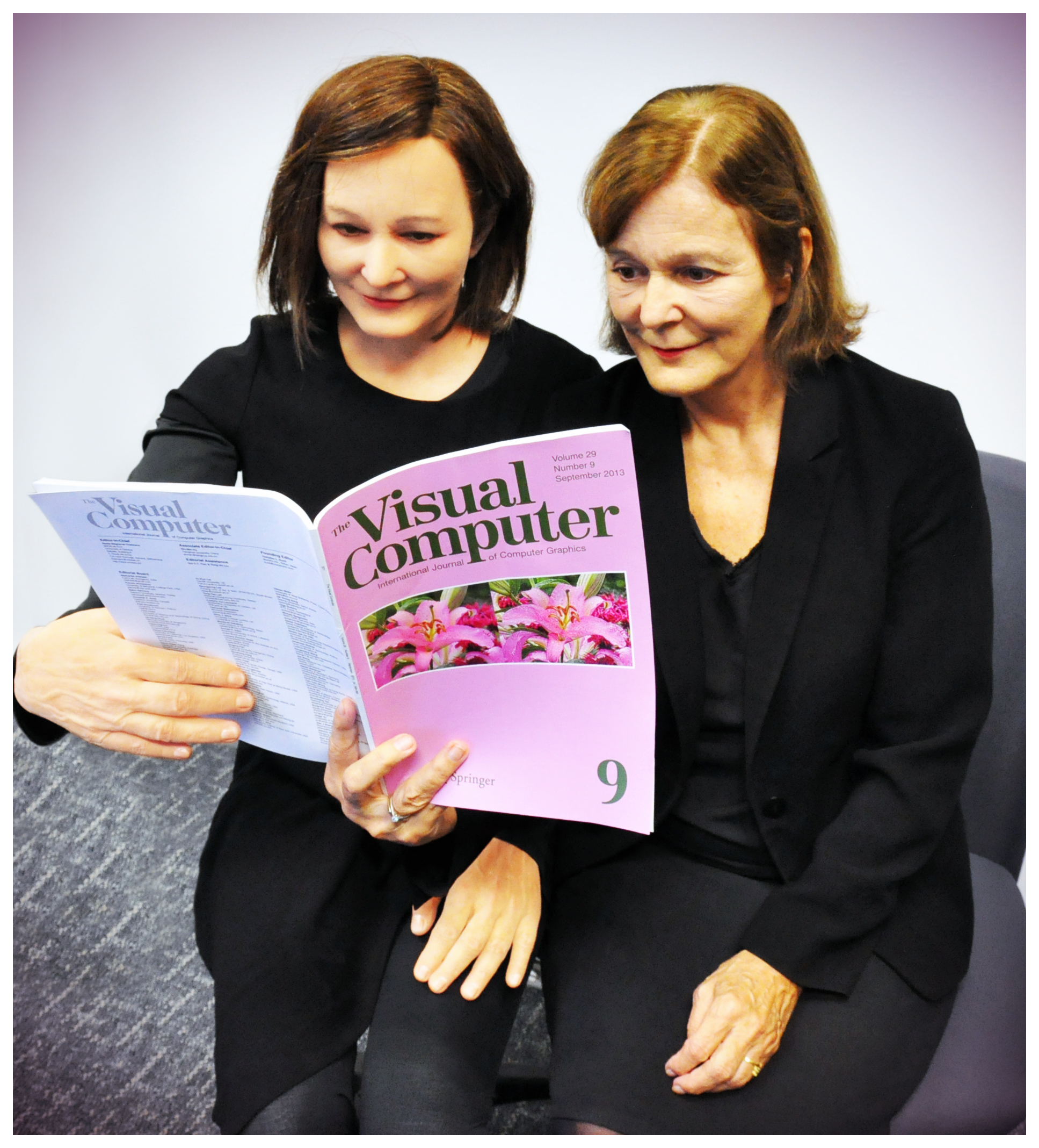 Nadine social robot, a copy of Nadia next to her, reading a magazine together